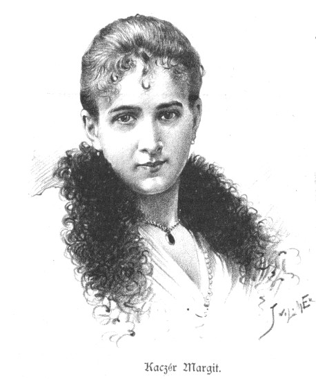 Portrait of Margit Kaczér (1879-1932), young Hungarian opera singer in Budapest.